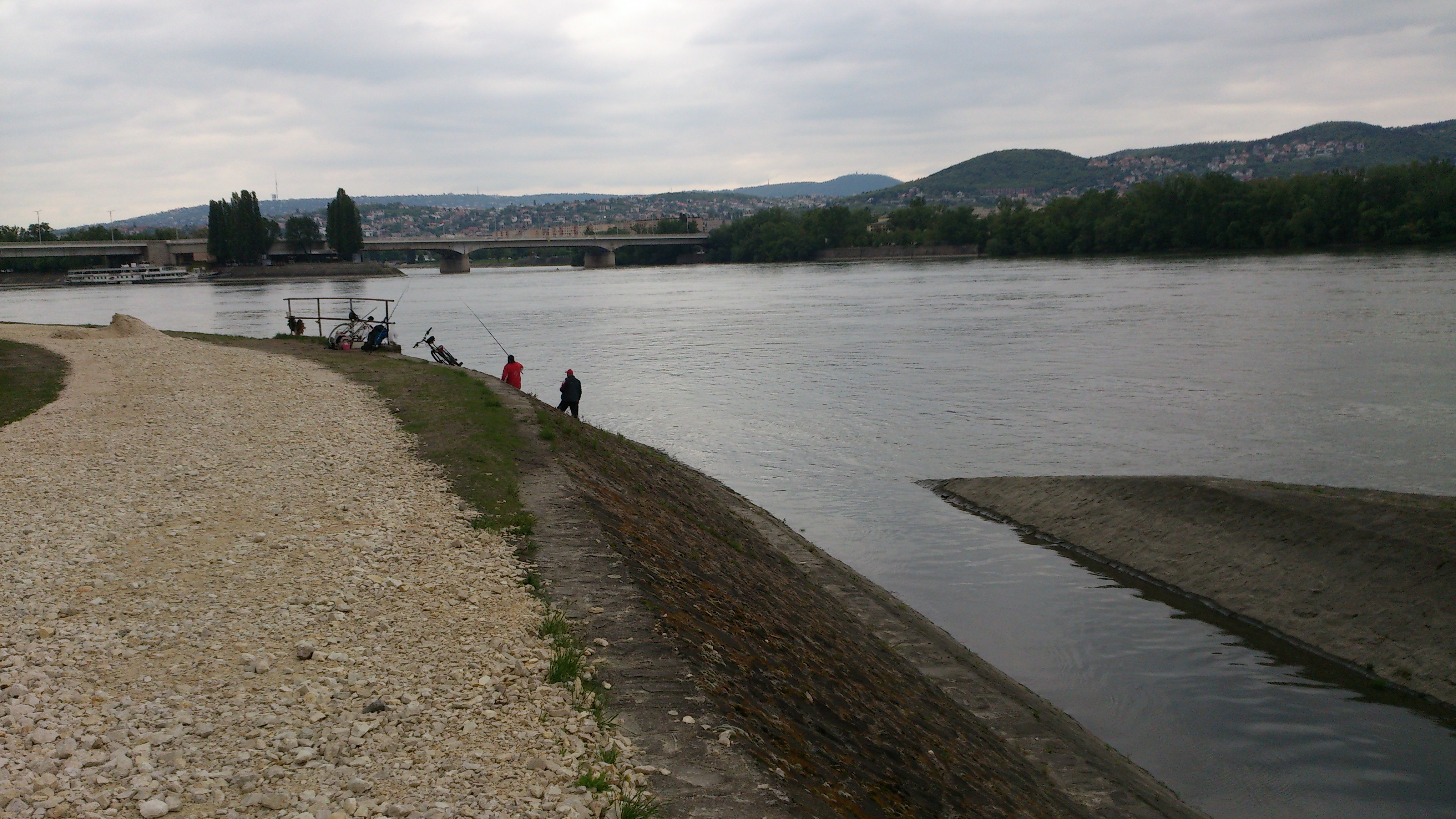 Rákos-patak torkolat